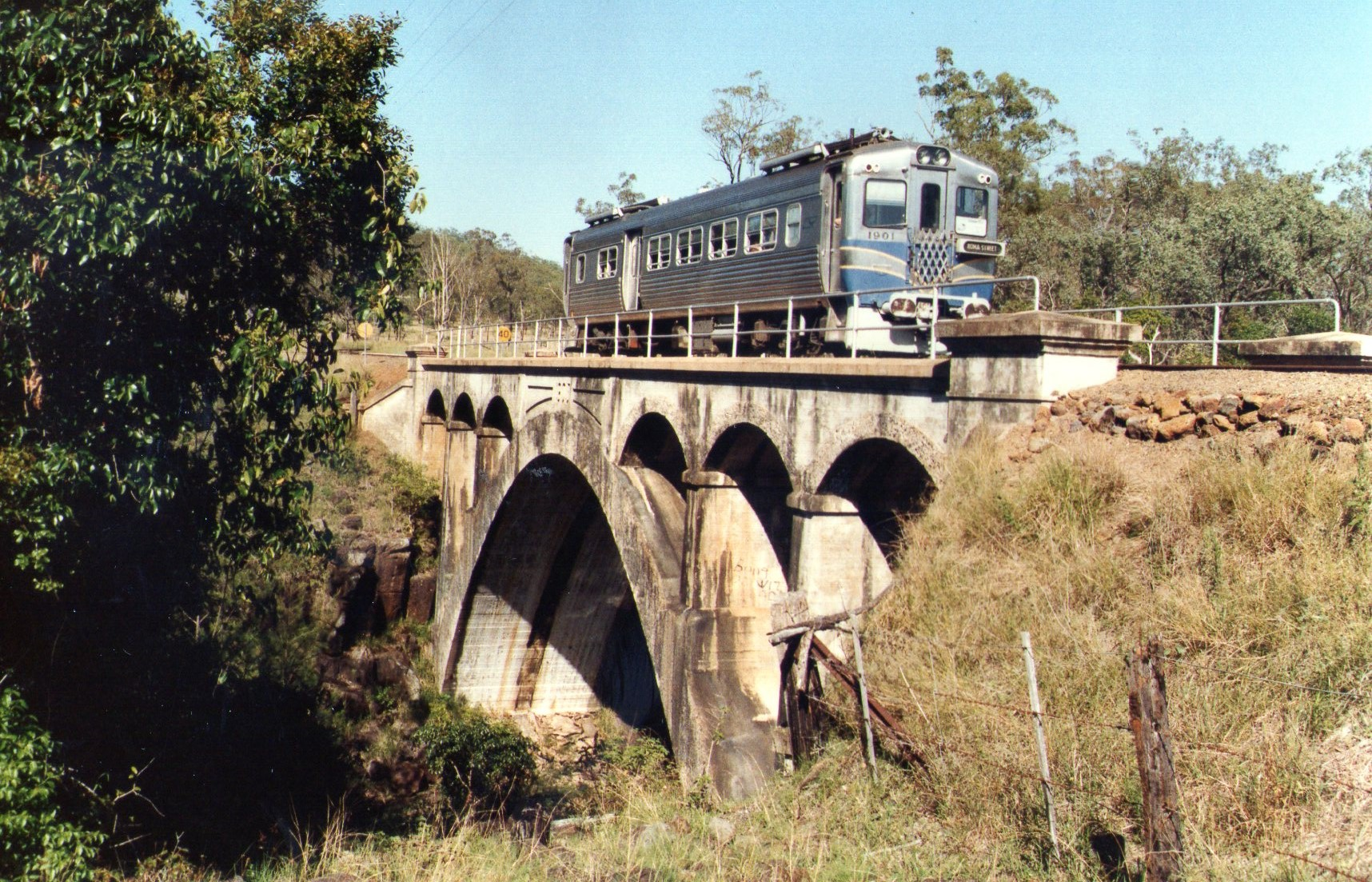 RM 1901 crossing a 1908 cast concrete bridge near Gayndah, one of the first such structure in Queensland